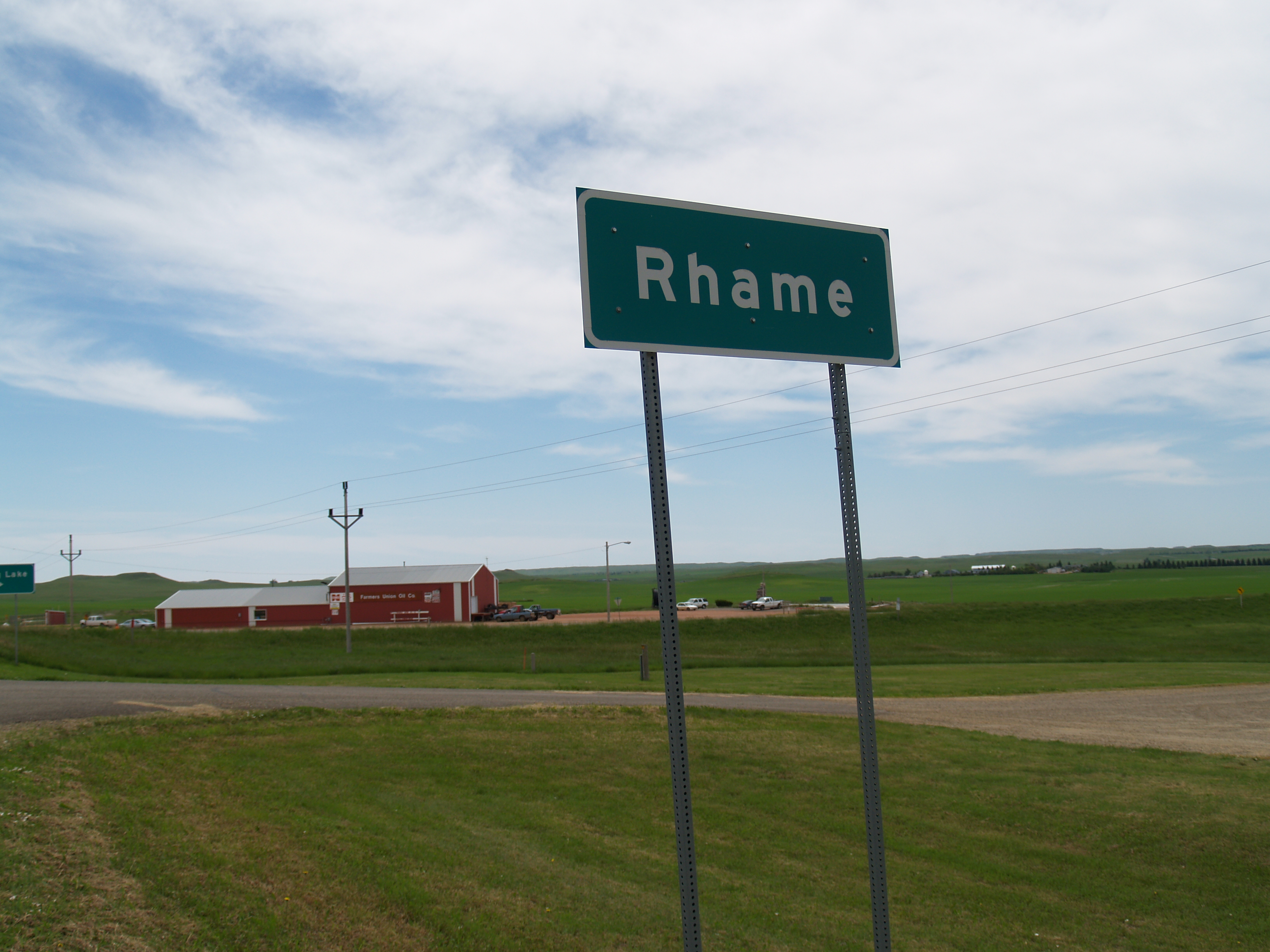 Rhame, North Dakota. From .